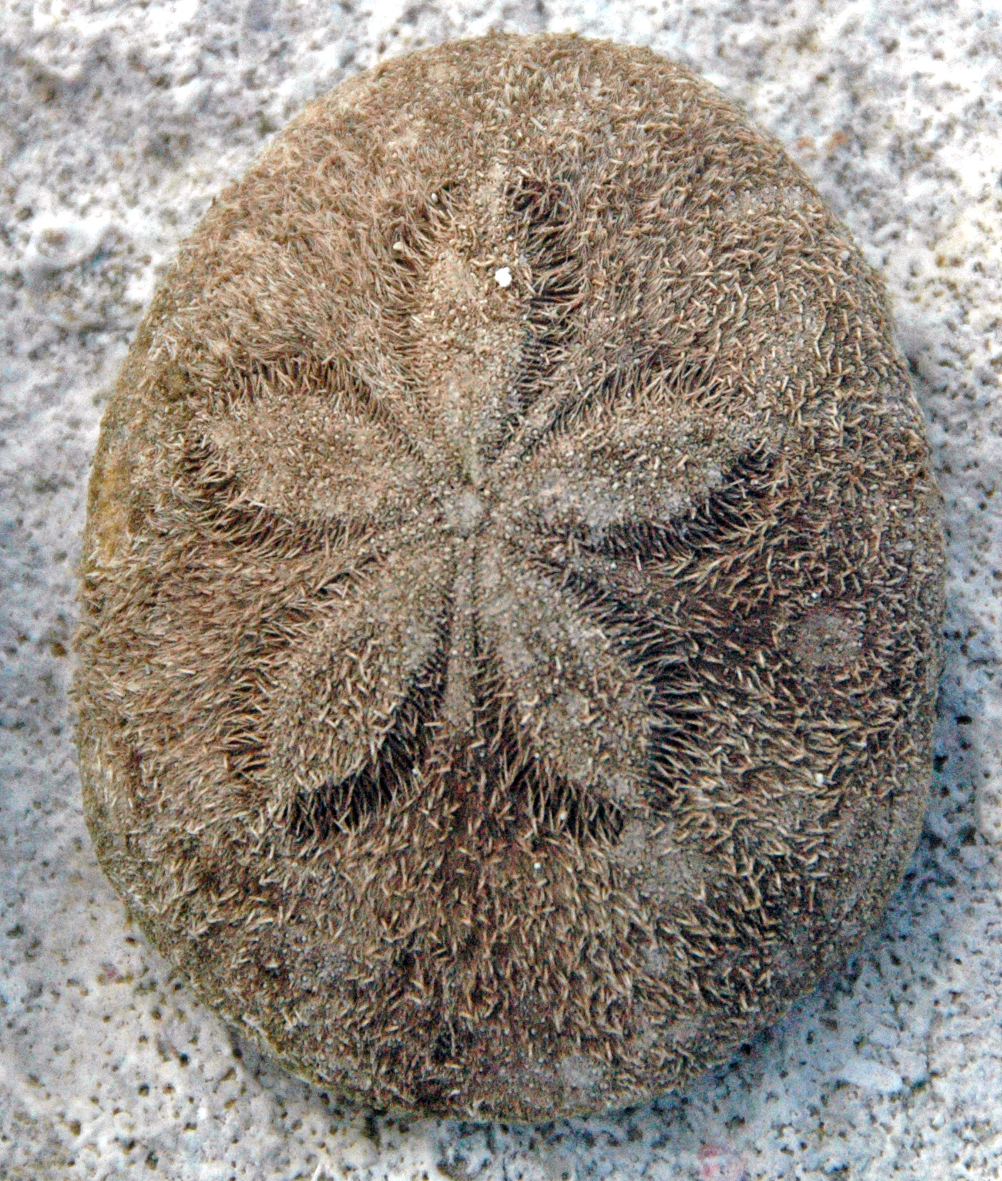 Clypeaster rosaceus - red heart urchin (dead), washed ashore onto a rocky shoreline. Heart urchins (irregular echinoids) have somewhat globular skeletons (tests) composed of interlocking calcite plates and covered in short, fur-like spines. The skeleton is bilaterally symmetrical, not pentaradially symmetrical as in the sea urchins. The upper side of the skeleton has the pattern of a 5-petaled star - each petal is an ambulacrum. The mouth and anus are at opposite ends of the long axis of the skeleton. Heart urchins are infaunal deposit feeders - they consume bulk sediments, digest any organic matter mixed in, and excrete large quantities of sediments. Locality: beach landward from Snapshot Reef, Fernandez Bay, western San Salvador Island, eastern Bahamas